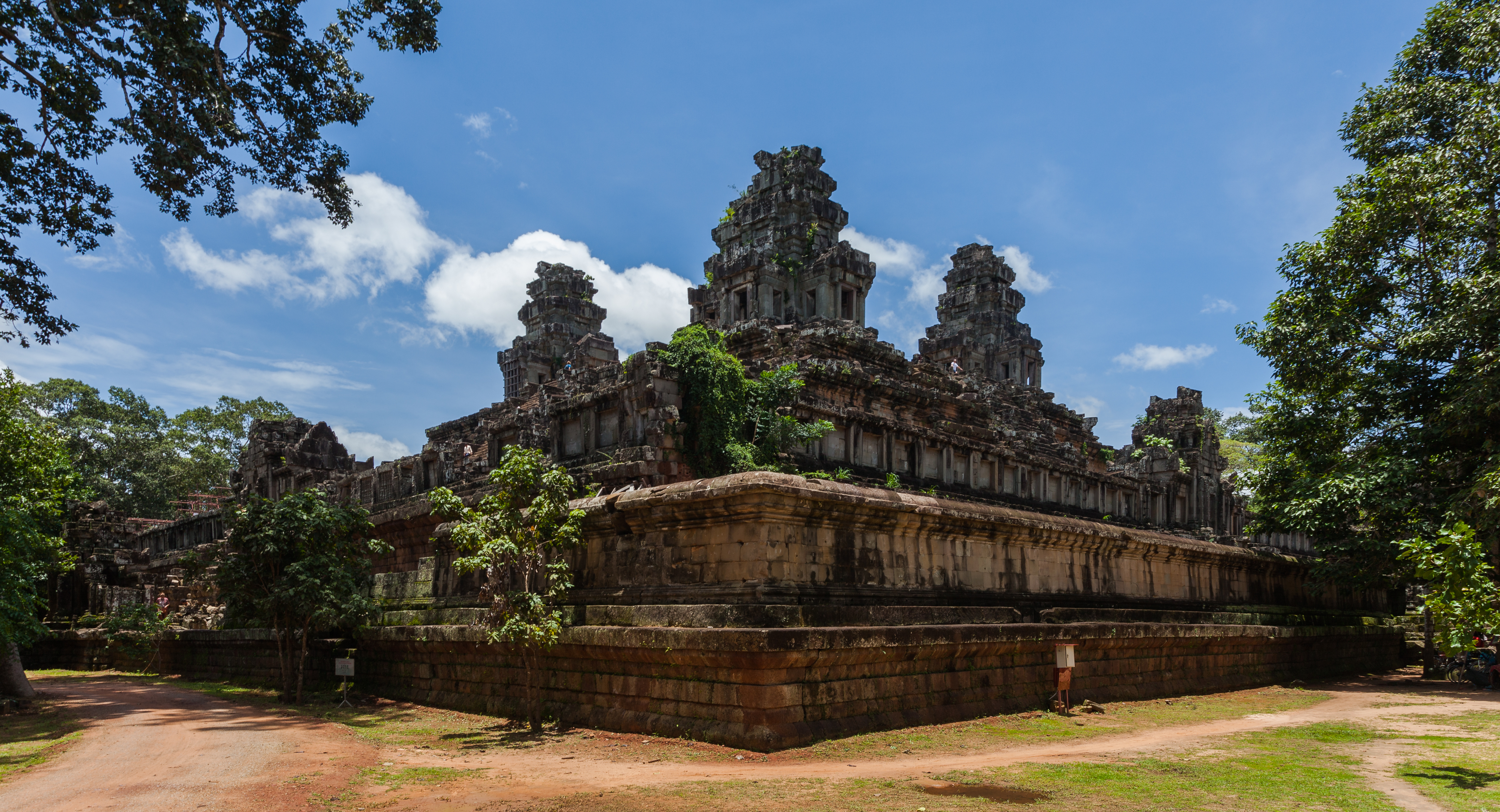 Ta Keo, Angkor, Cambodia